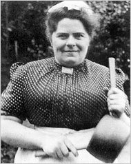 Sophie Farrell, cook to Julia and Leslie Stephen